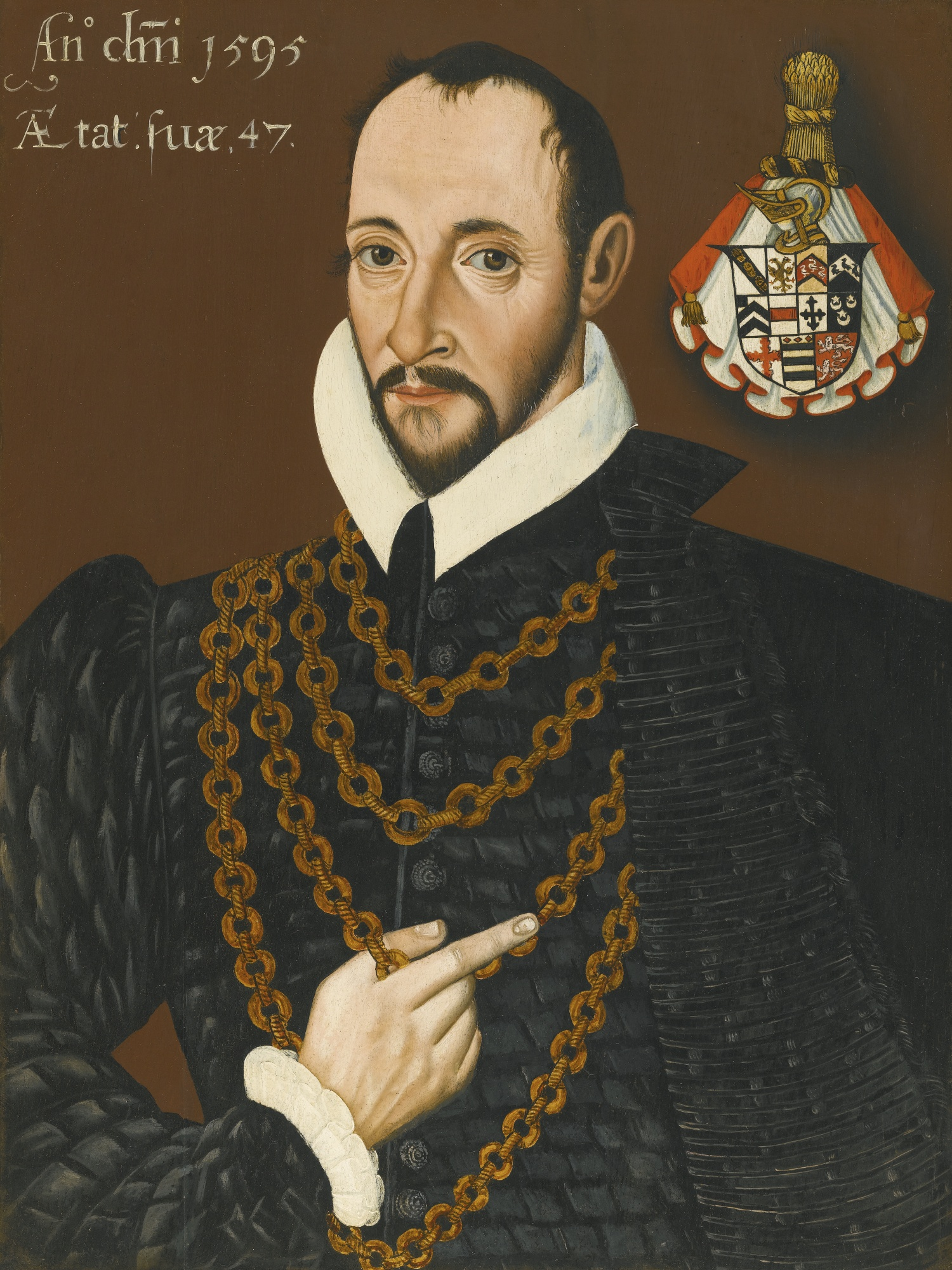 Portrait of Sir Thomas Hesketh (1548-1605) of Heslington Hall.